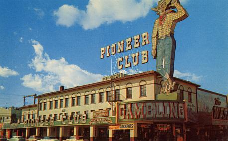 Postcard of the Pioneer Club in the 1950s — formerly on Fremont Street in Downtown Las Vegas, Clark County, Nevada. The tall neon sign, erected in 1951, is known as "Vegas Vic"'.